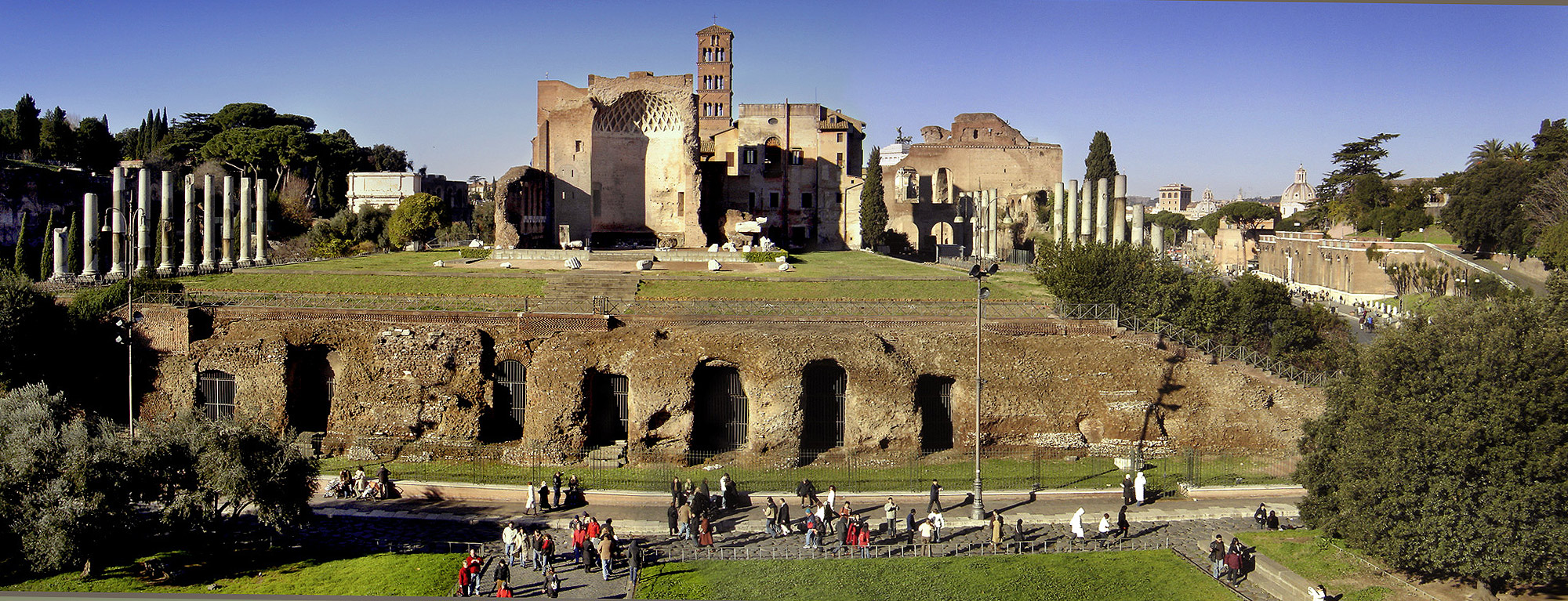 Temple of Venus and Roma, seen from the Colosseum. Rome.